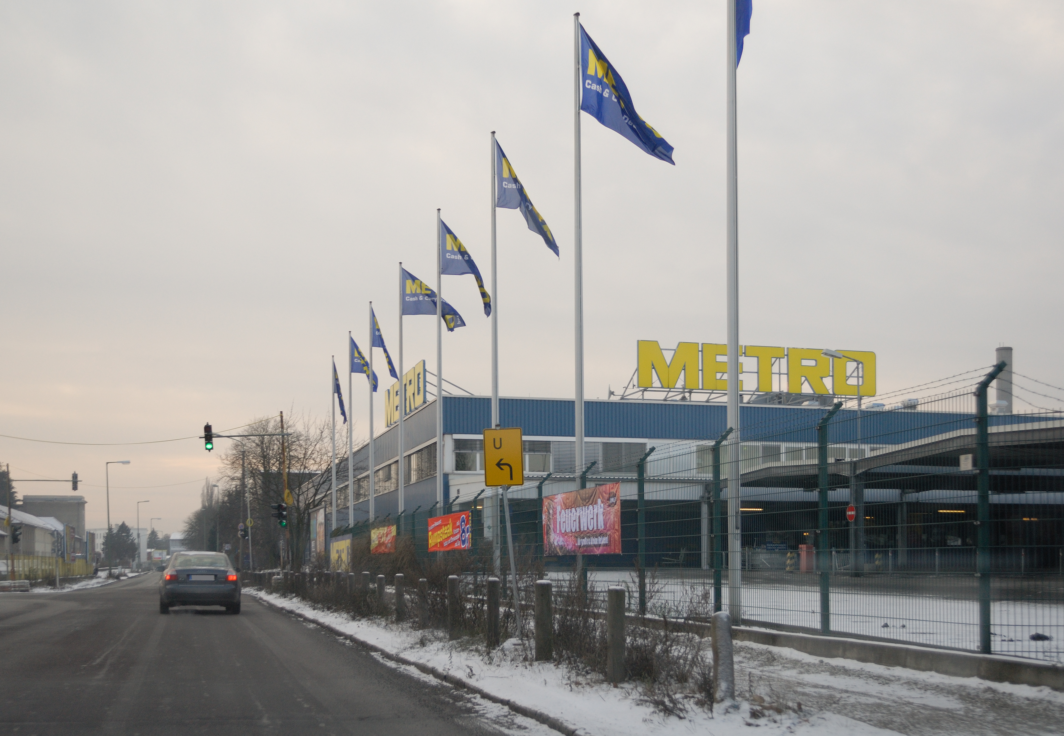 Former Berlin-Pankow store of Metro Cash & Carry.